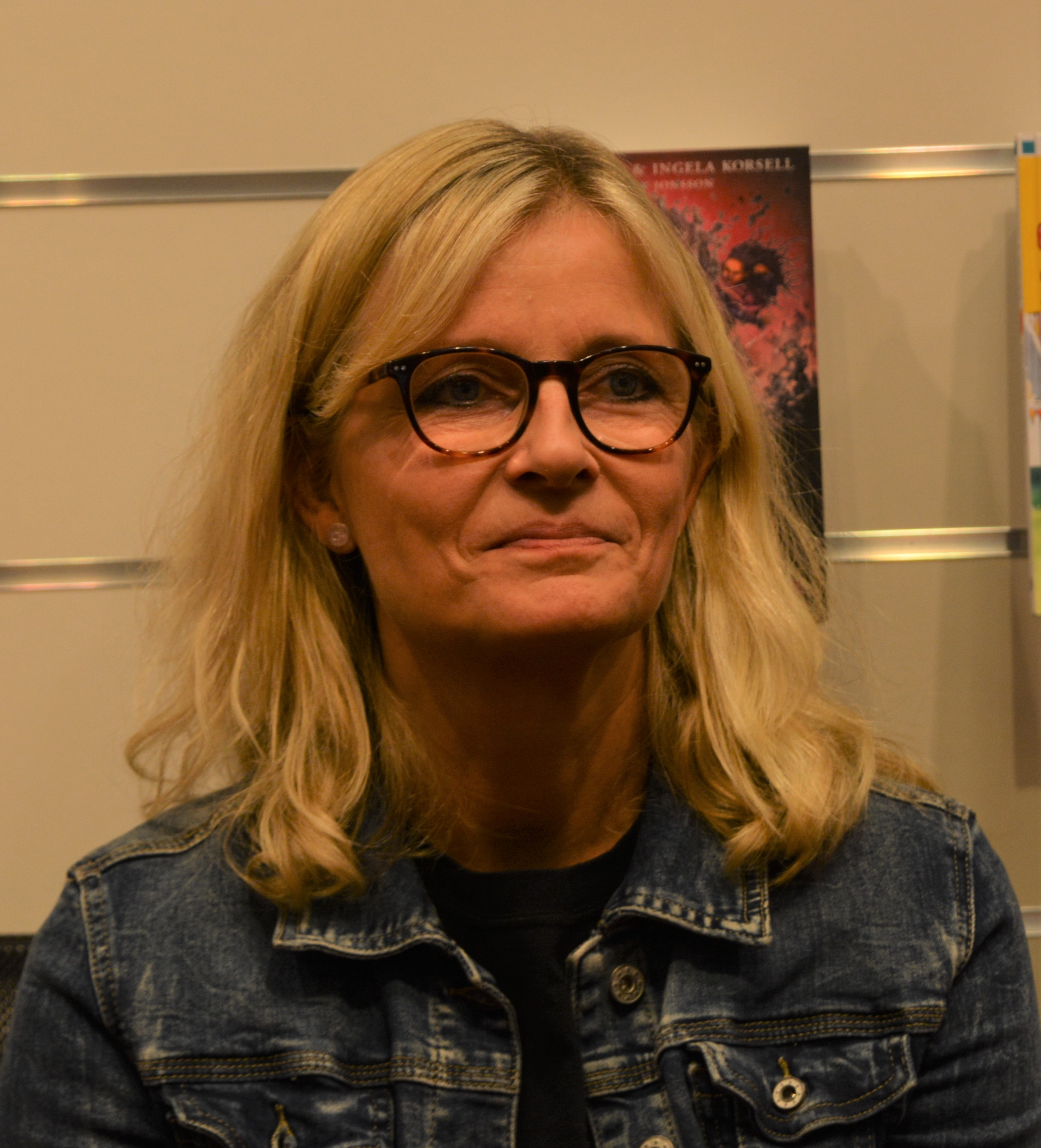 Ingela Korsell at the 2018 Göteborg Book Fair.